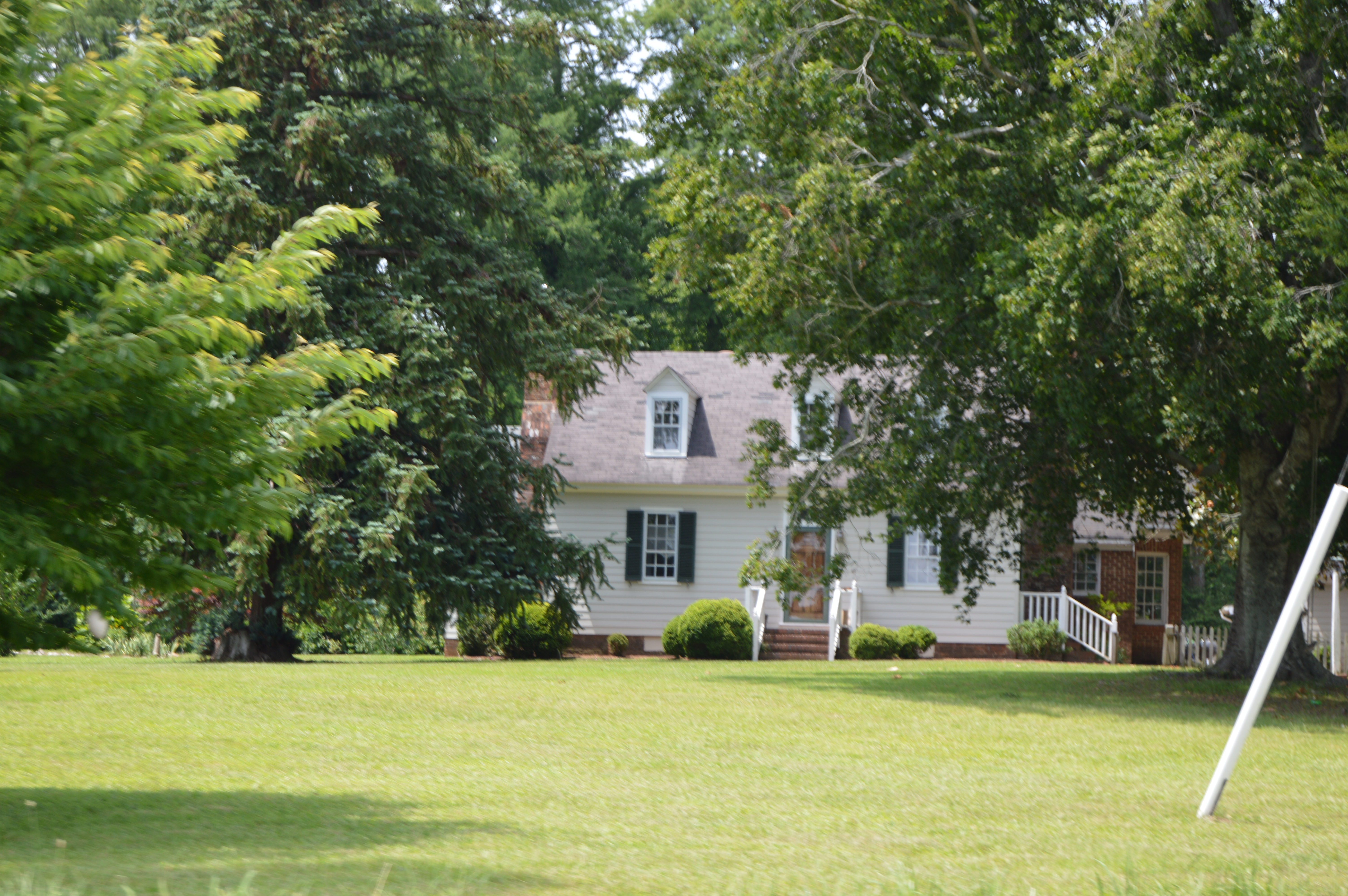 Distant view of the front of the Caleb Grandy House, located along Lambs Road northeast of Camden in Camden County, North Carolina, United States. Built in 1787, it is listed on the National Register of Historic Places.